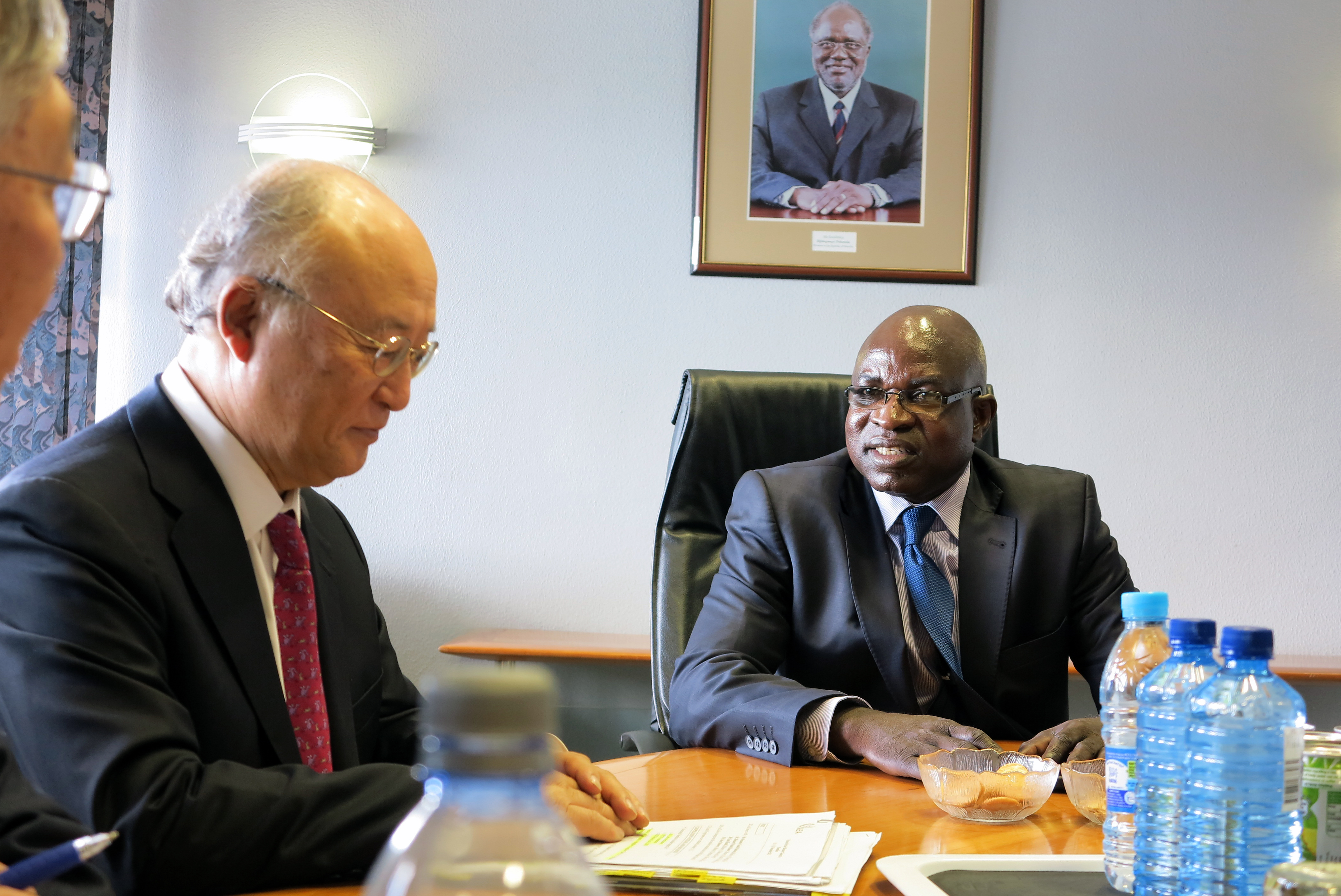 IAEA Director General Yukiya Amano meets with Minister for Agriculture, Water and Forestry John Mutorwa, during his official visit to Namibia. 12 December 2013 Photo Credit: Conleth Brady / IAEA